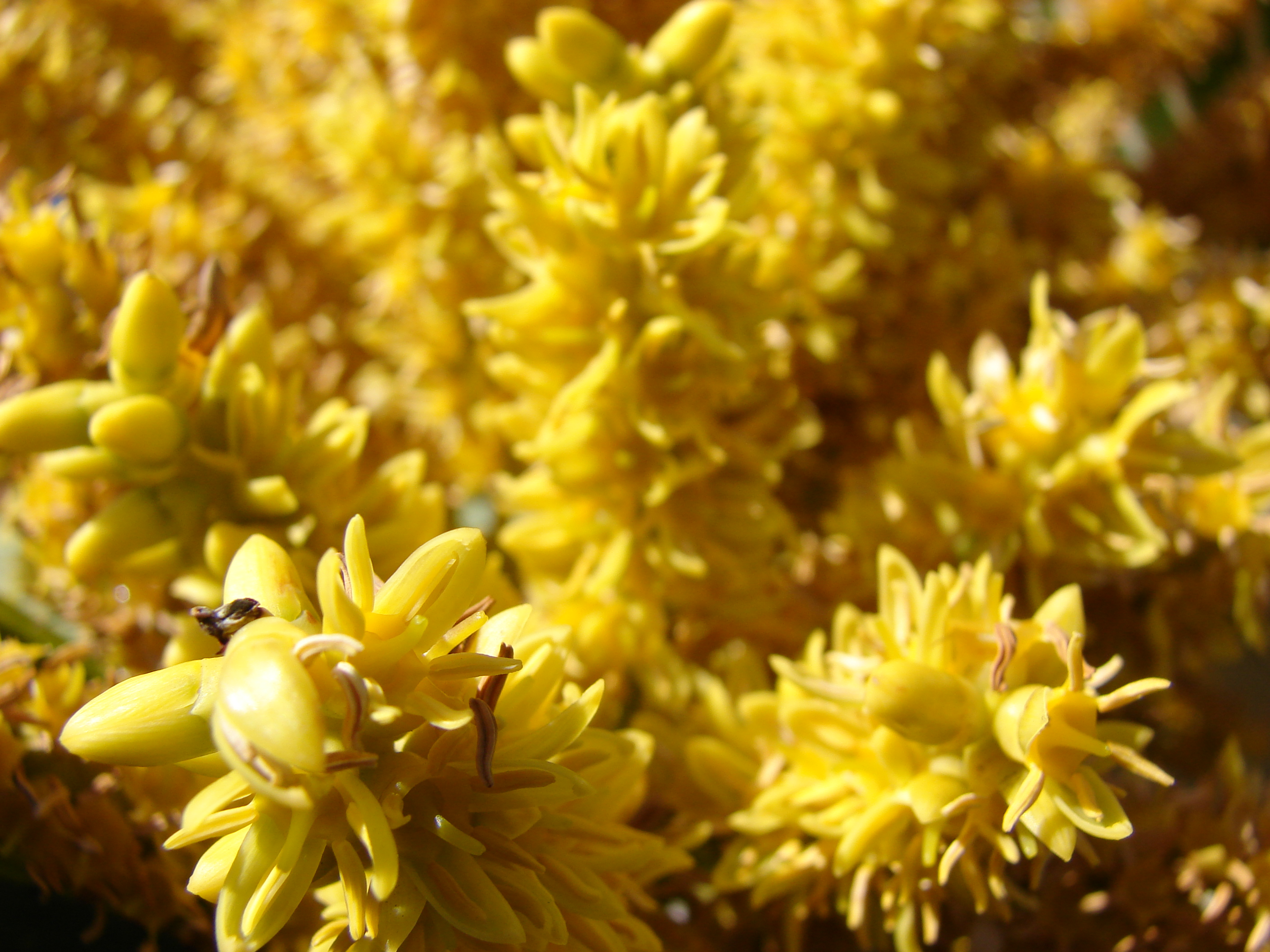 Pritchardia sp. (flowers). Location: Maui, Pukalani Community Center